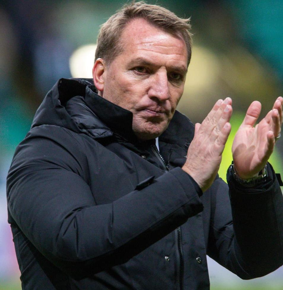 16.02.2018. Великобритания, Глазго, «Селтик Парк». Лига Европы УЕФА 2017/18, «Селтик» — «Зенит».